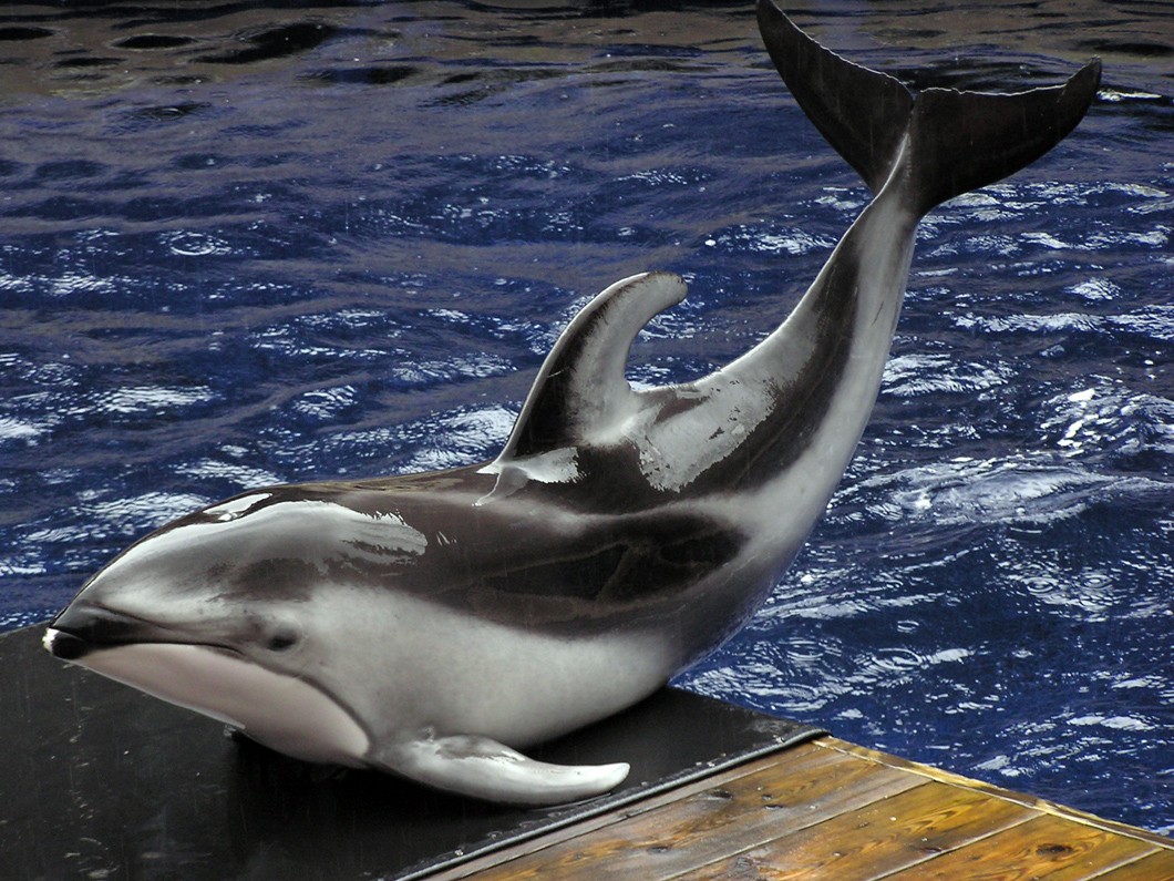 A Pacific White-sided Dolphin hops out for a checkup during a display at Vancouver Aquarium